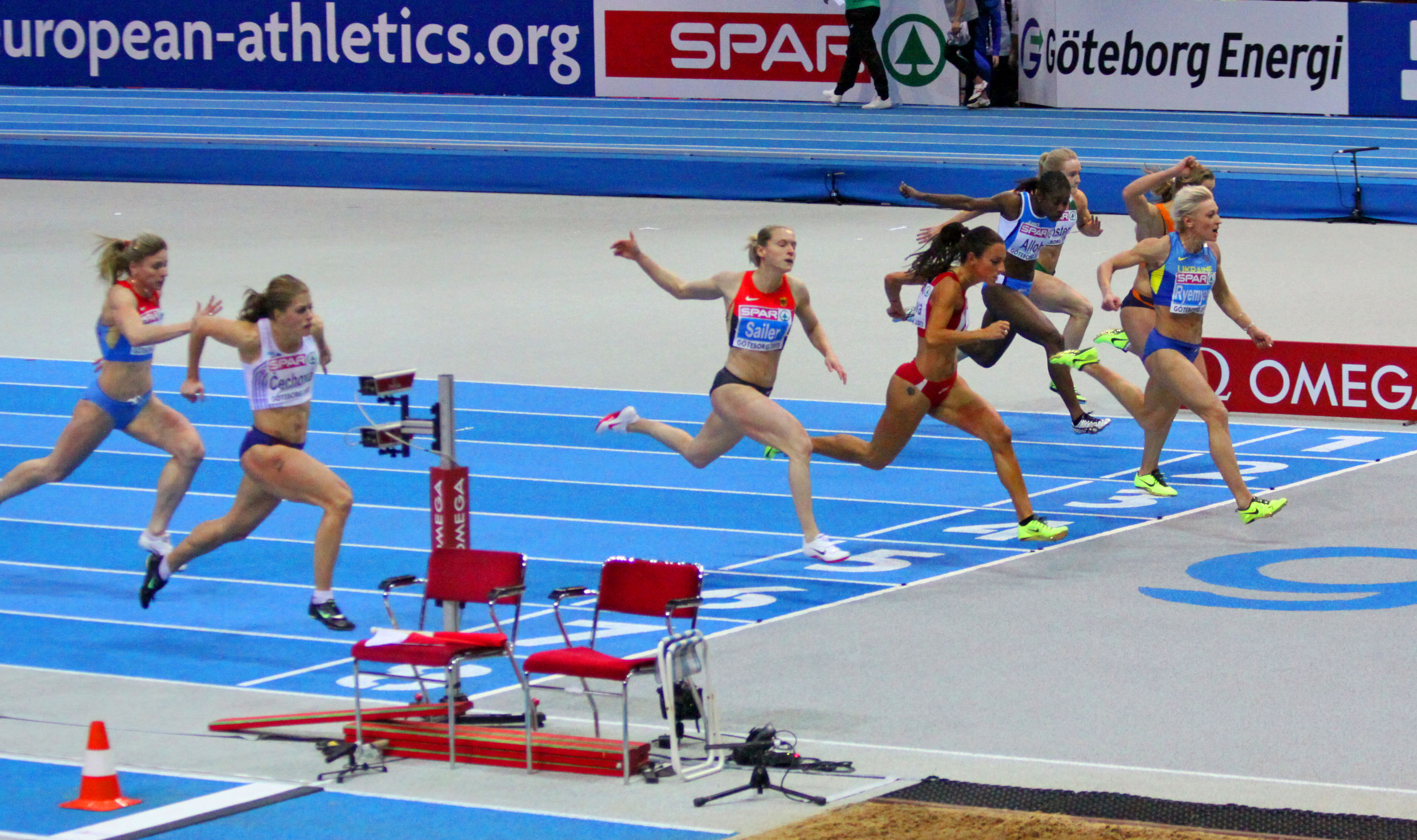 the first semifinal of the women's 60 metres at the 2013 European Athletics Indoor Championships.